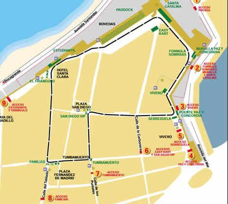 Race of the Stars 2003